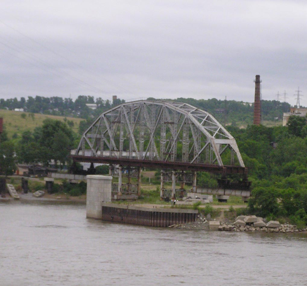 old bridge over Amur river near Khabarovsk